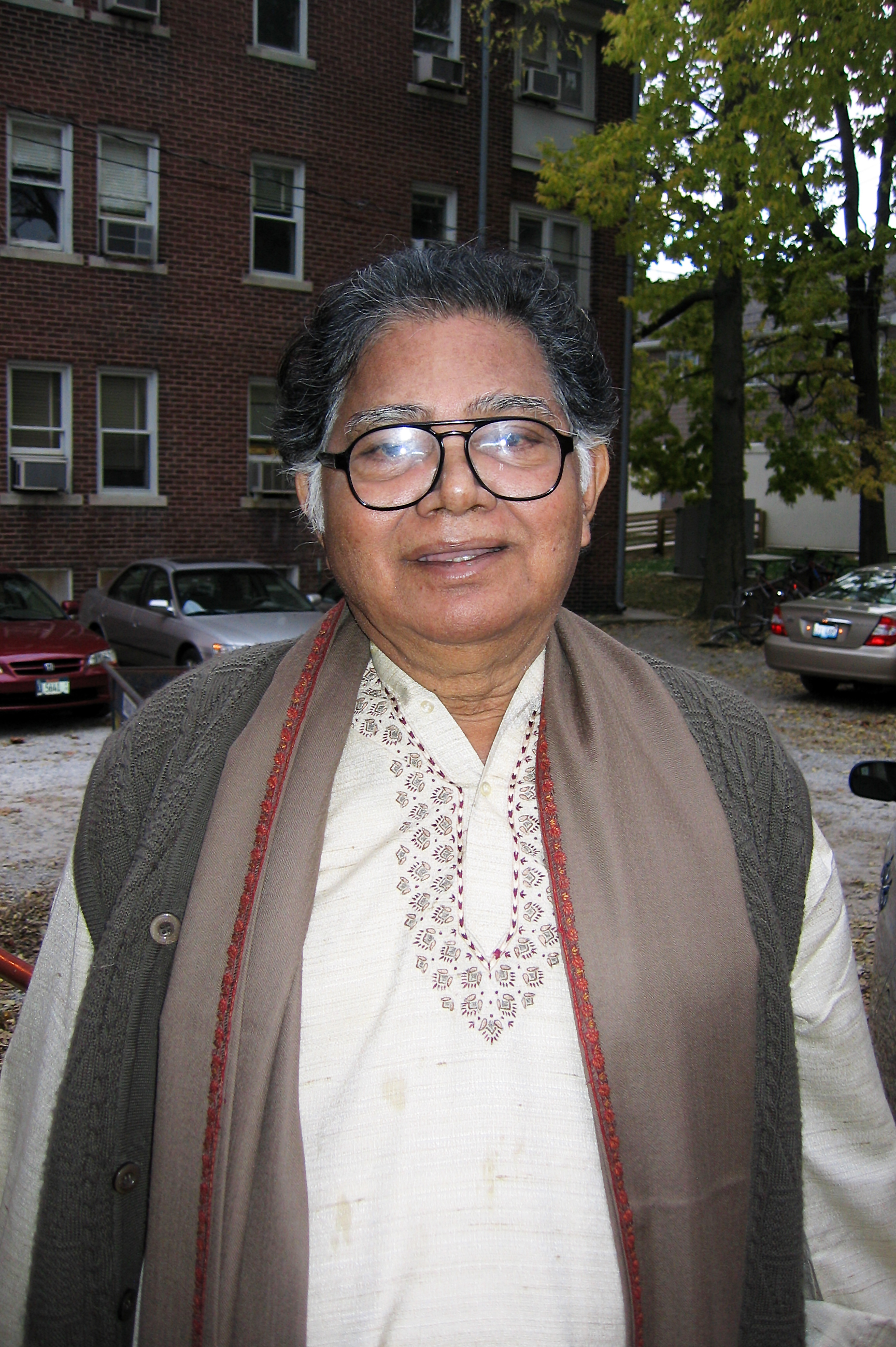 Sunil Gangopadhyay, noted Bengali poet. Photo taken by Ragib Hasan, during the Tagore Festival, 2006, at University of Illinois at Urbana-Champaign